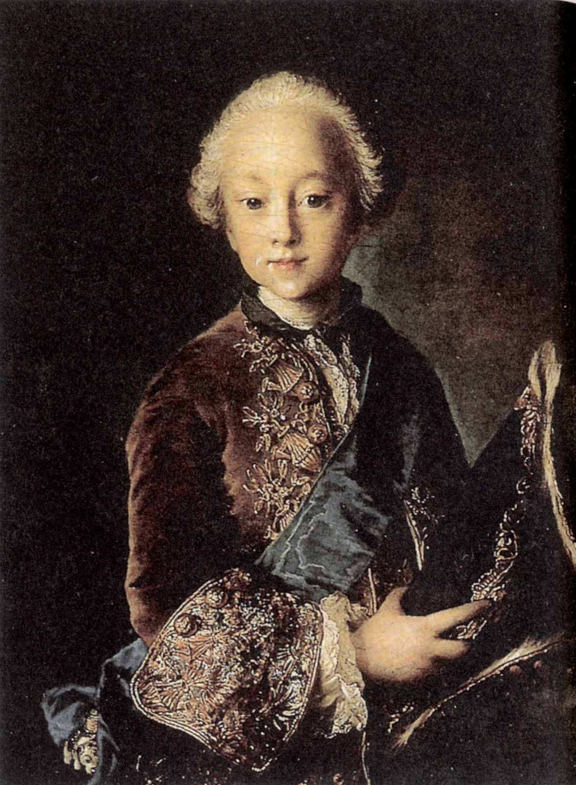 Christian 7 of Denmark Norway (1749-1808)